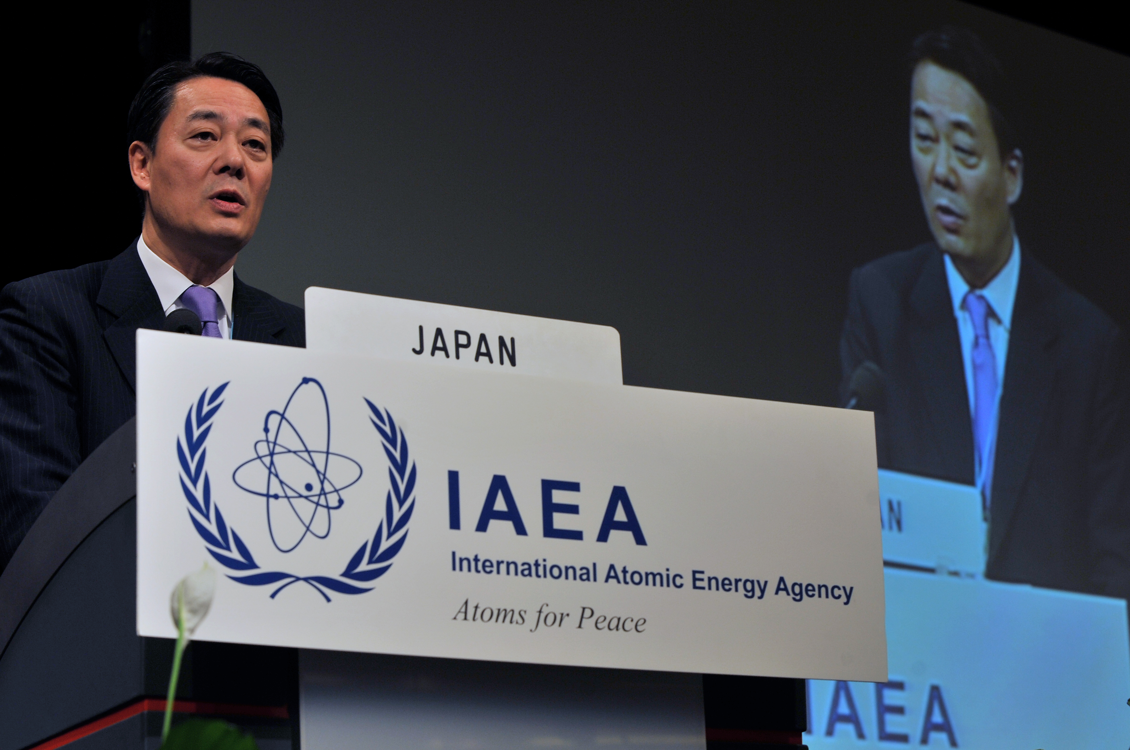 Banri Kaieda, Minister of Economy, Trade and Industry, delivered his statement at the opening of the Ministerial Conference on Nuclear Safety in Vienna City, Vienna State on June 20, 2011.